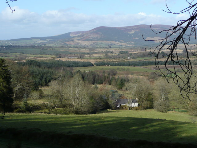 Glen of Imail A fine view over wooded countryside in western County Wicklow. Sugarloaf and Lobawn are the hills ranged in the distance. In the foreground is Ballinabarney Farm.